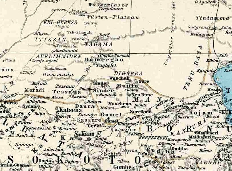 Crop of a German 1891 atlas, West Africa showing what is today south east Niger and north east Nigeria. Names are German spelling, often archaic. Map is centered on the Sultanate of Damagaram, a vasalate of the Bornu state. Yellow lines mark border between Bornu and the allied emirates of the Sokoto Caliipate.